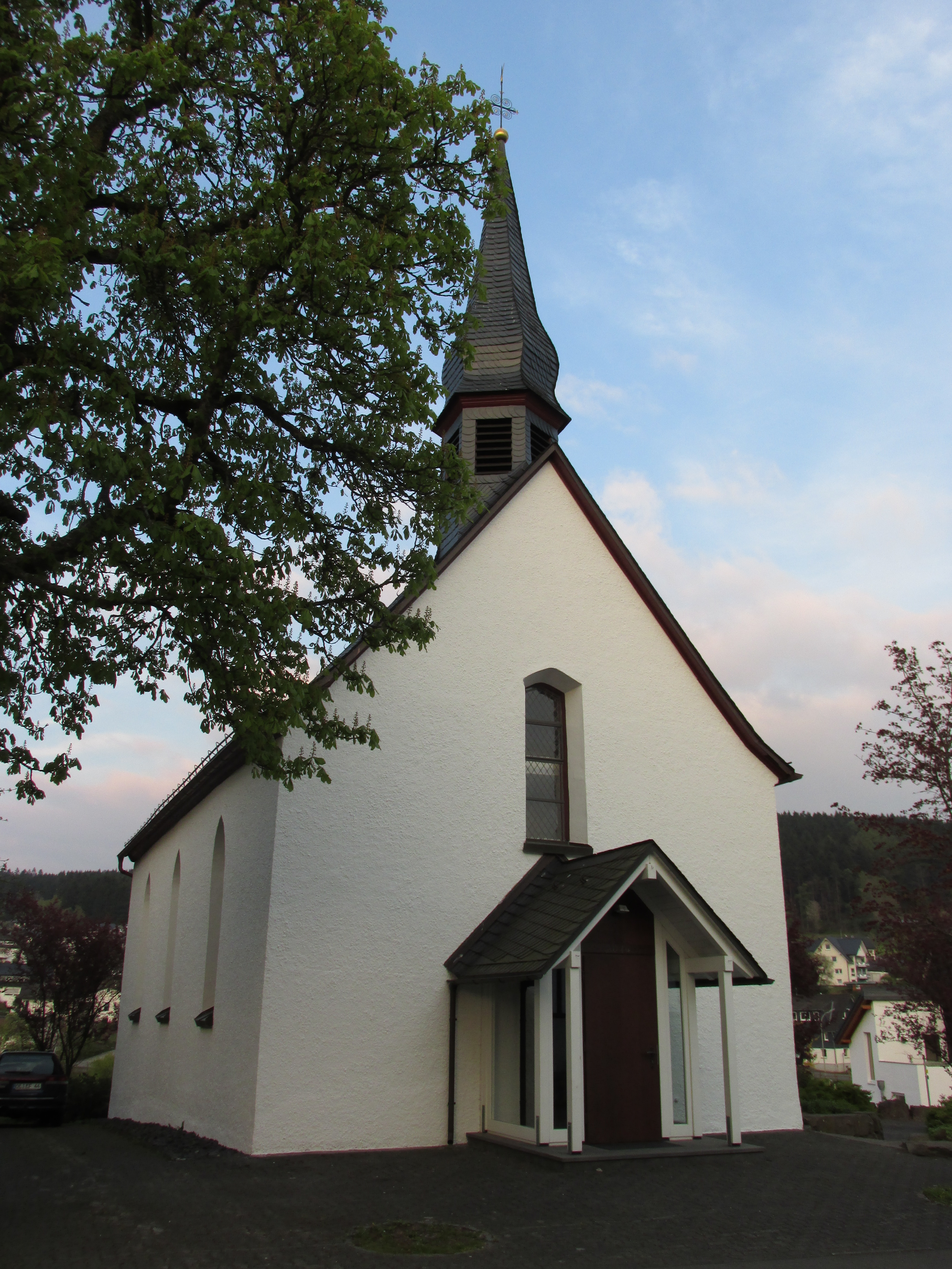 St. Nicholas, Brachthausen, Kirchhundem, Germany check usage